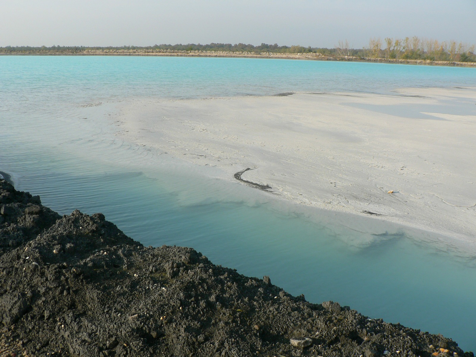 Az ajkai timföldgyár egyik zagytározó kazettája